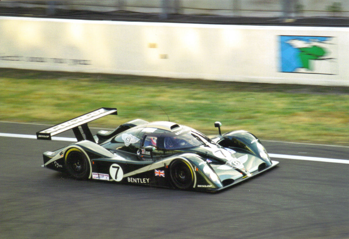 Martin Brundles last race in a Bentley EXP8 at Le Mans 2001